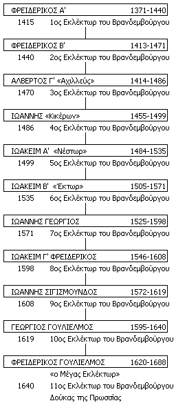 House of Hohenzollern from 1415 to 1640 in Brandenburg